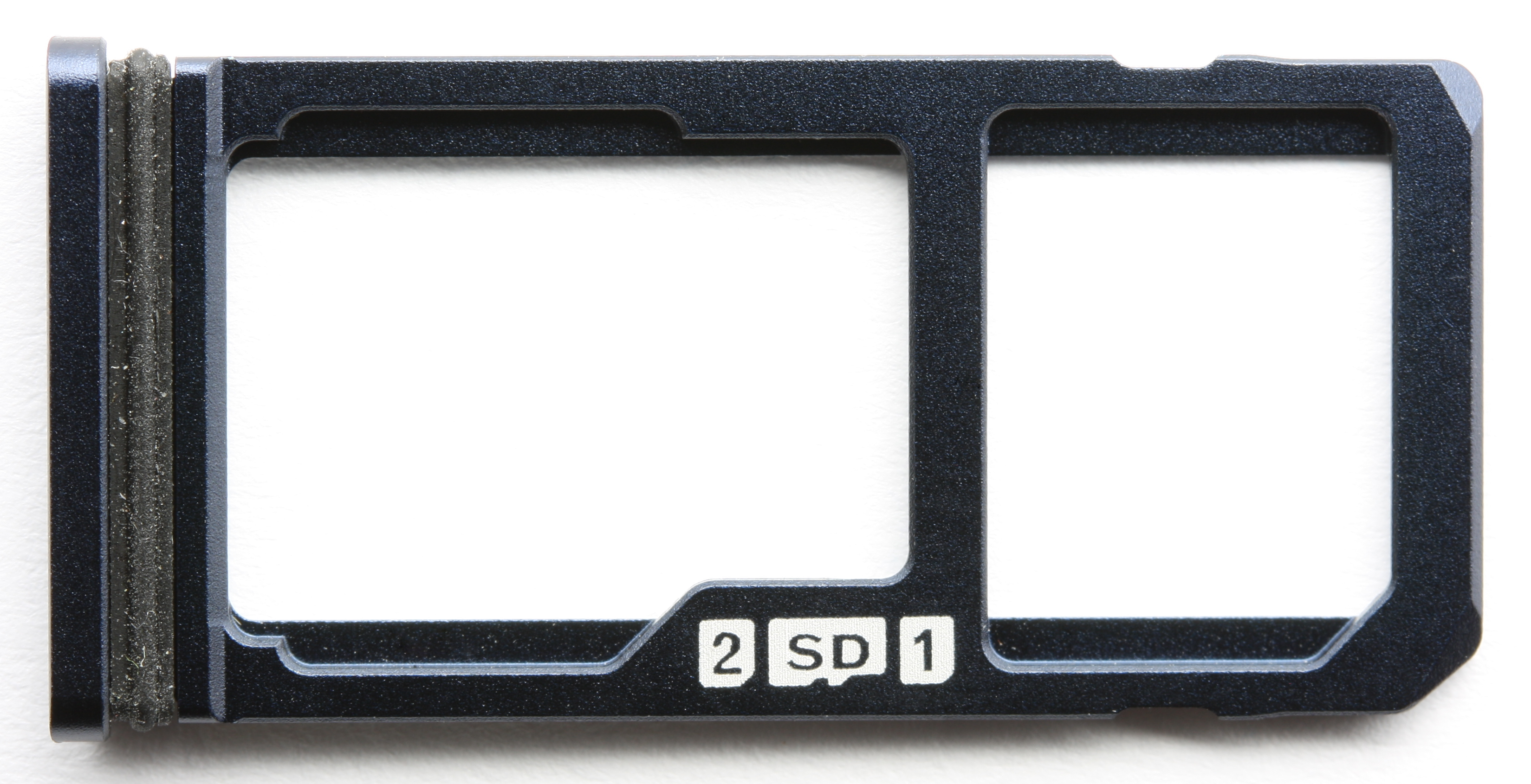 The SIM card/memory card tray of a Nokia 8